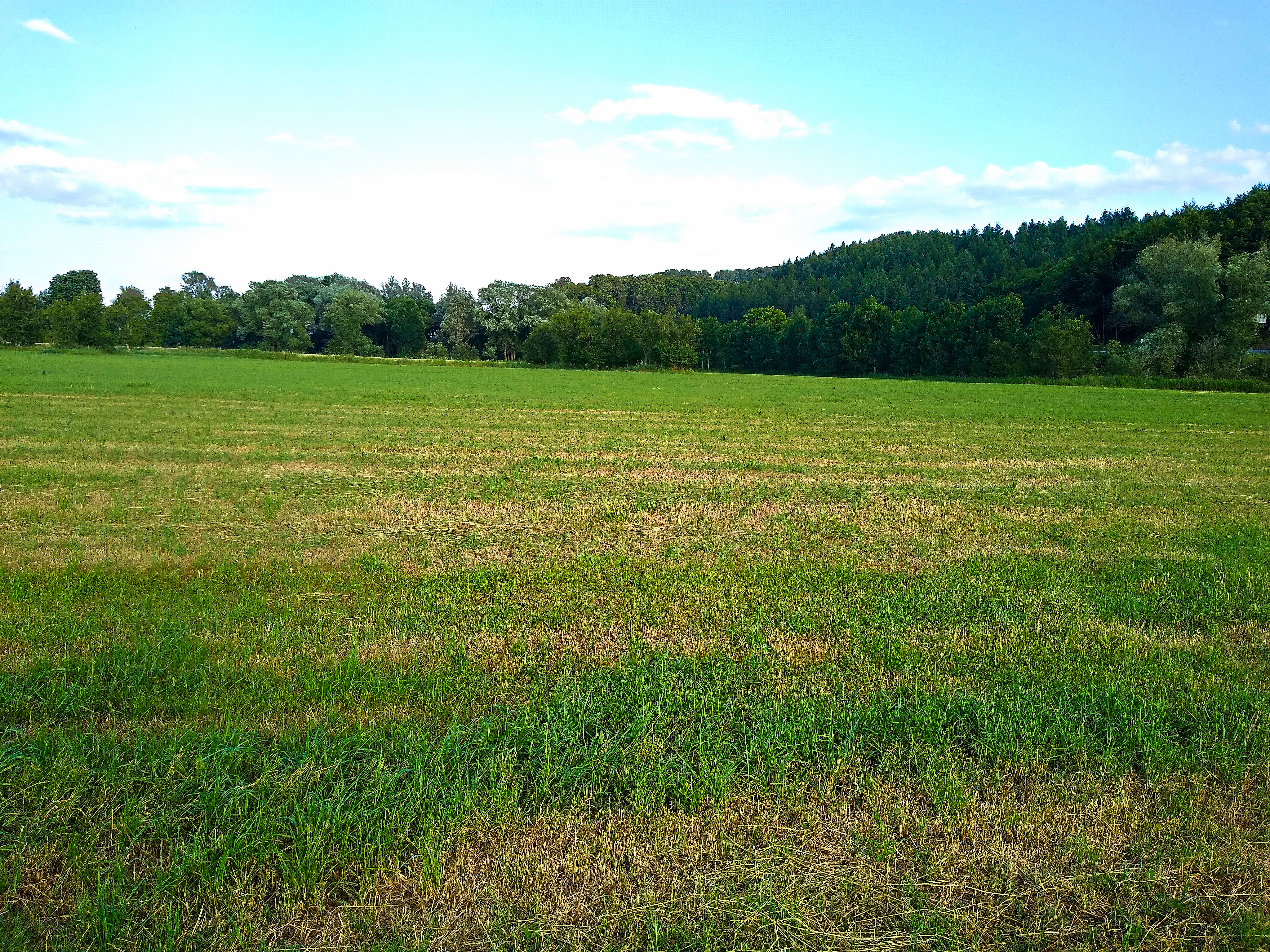 Site of the Salien Castle in Einöd (Saar)